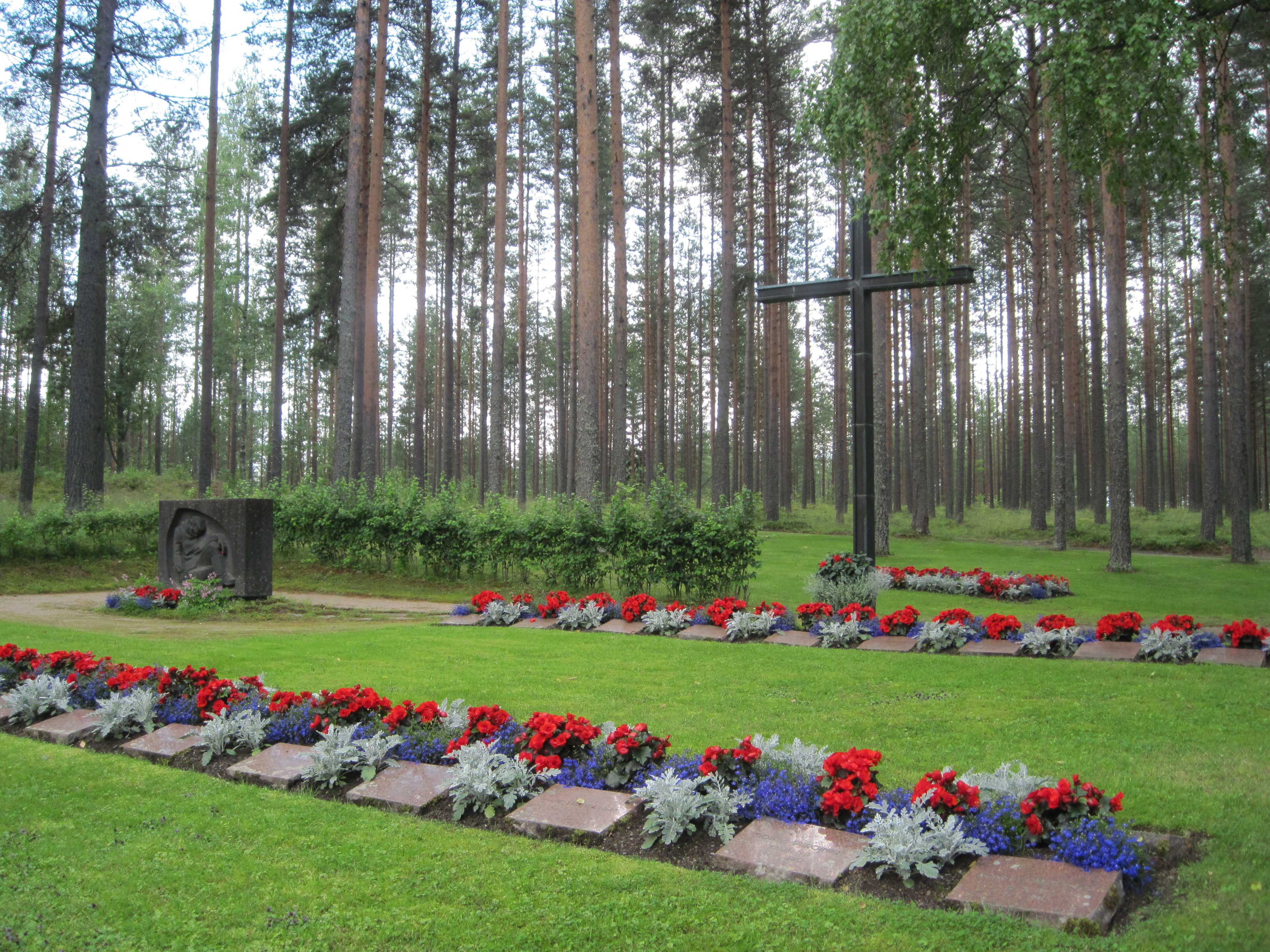 Military cemetary in Viinijärvi, Liperi, Finland